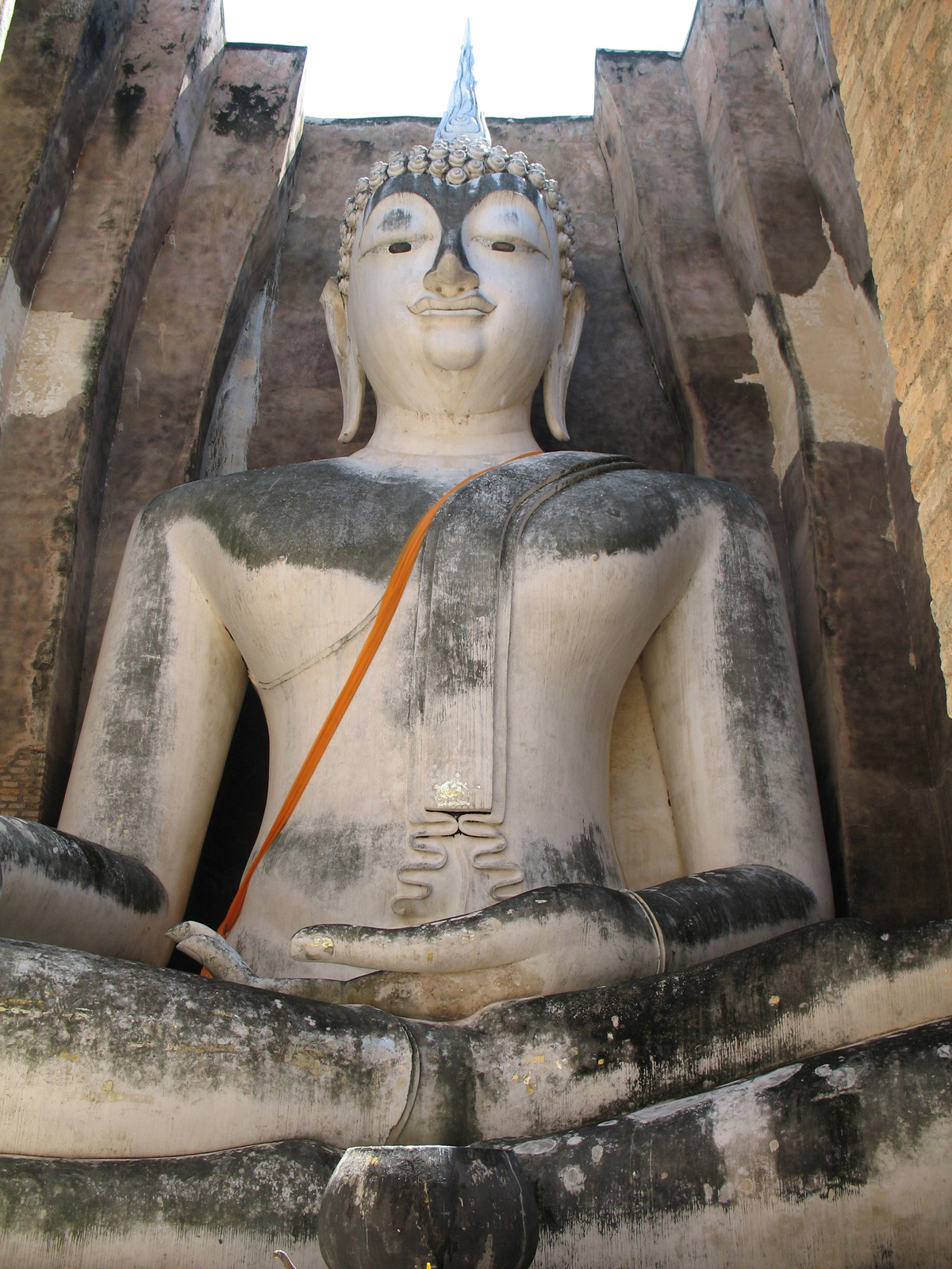 Phra Achana in Wat Si Chum Chapel in Sukhothai National Historical Park, Sukhothai Province.